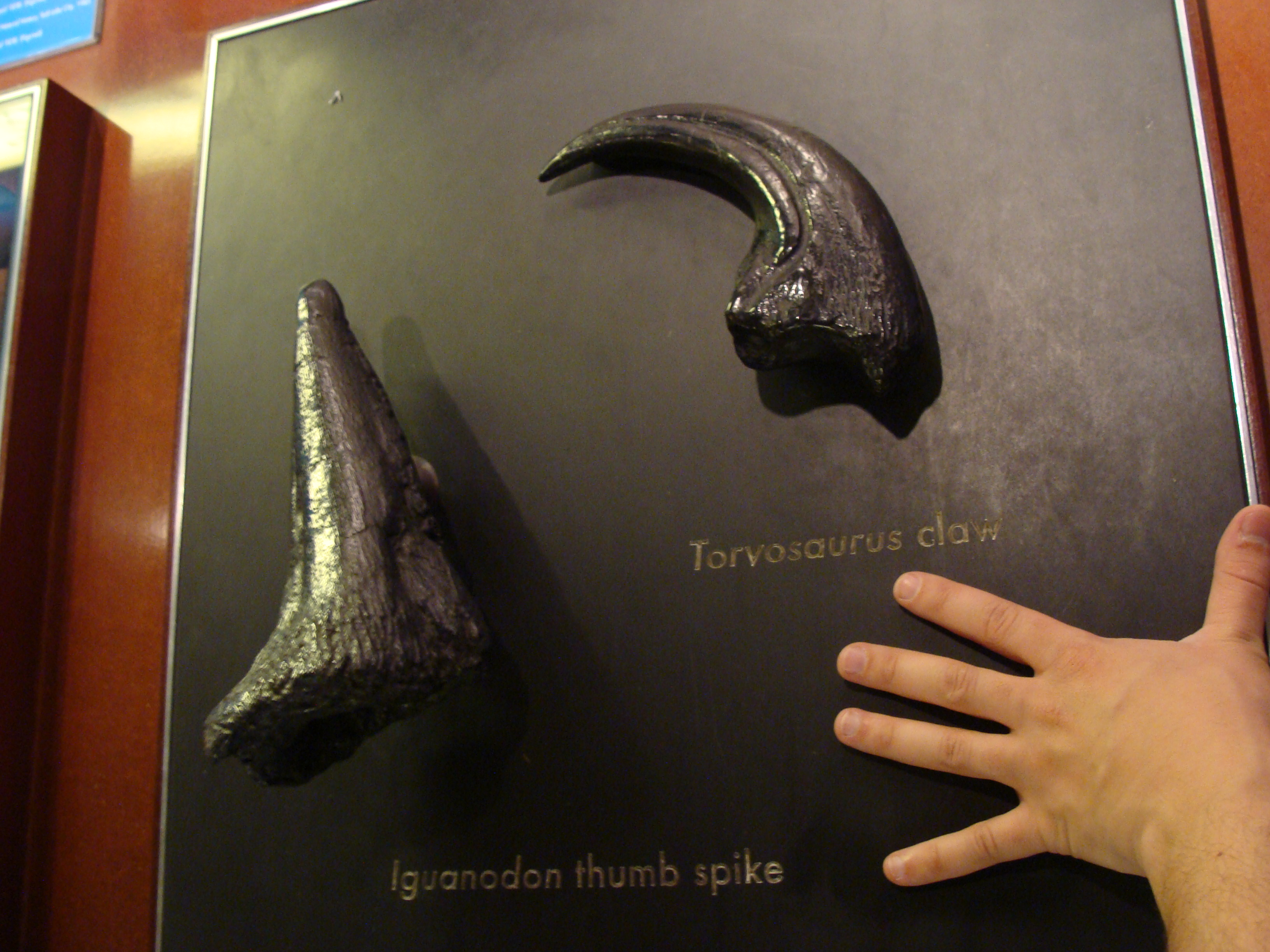 Comparative of claws of dinosaurs in the Natural History Museum of London